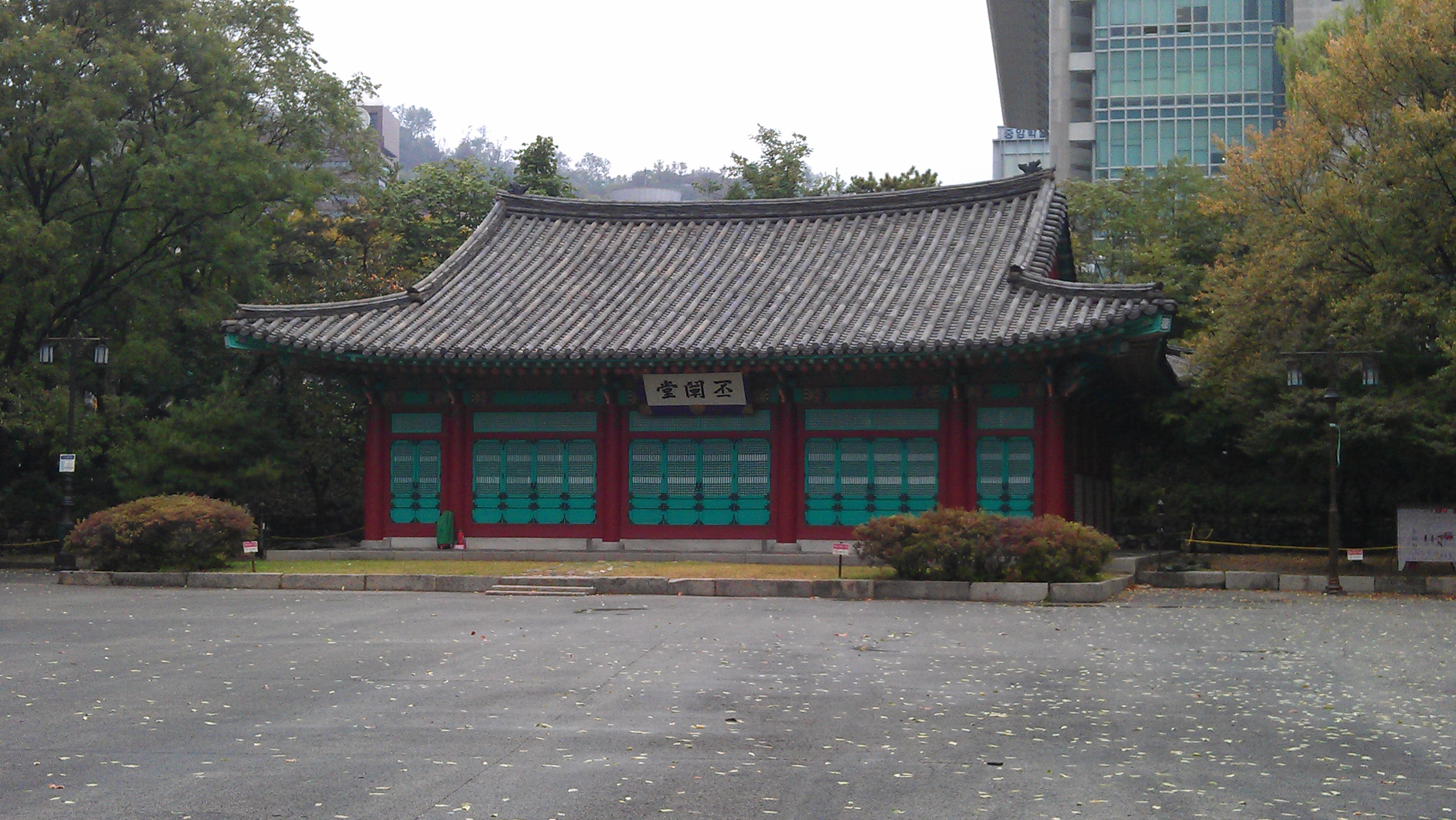 The State Exam Hall at the Sungkyunkwan in Seoul.